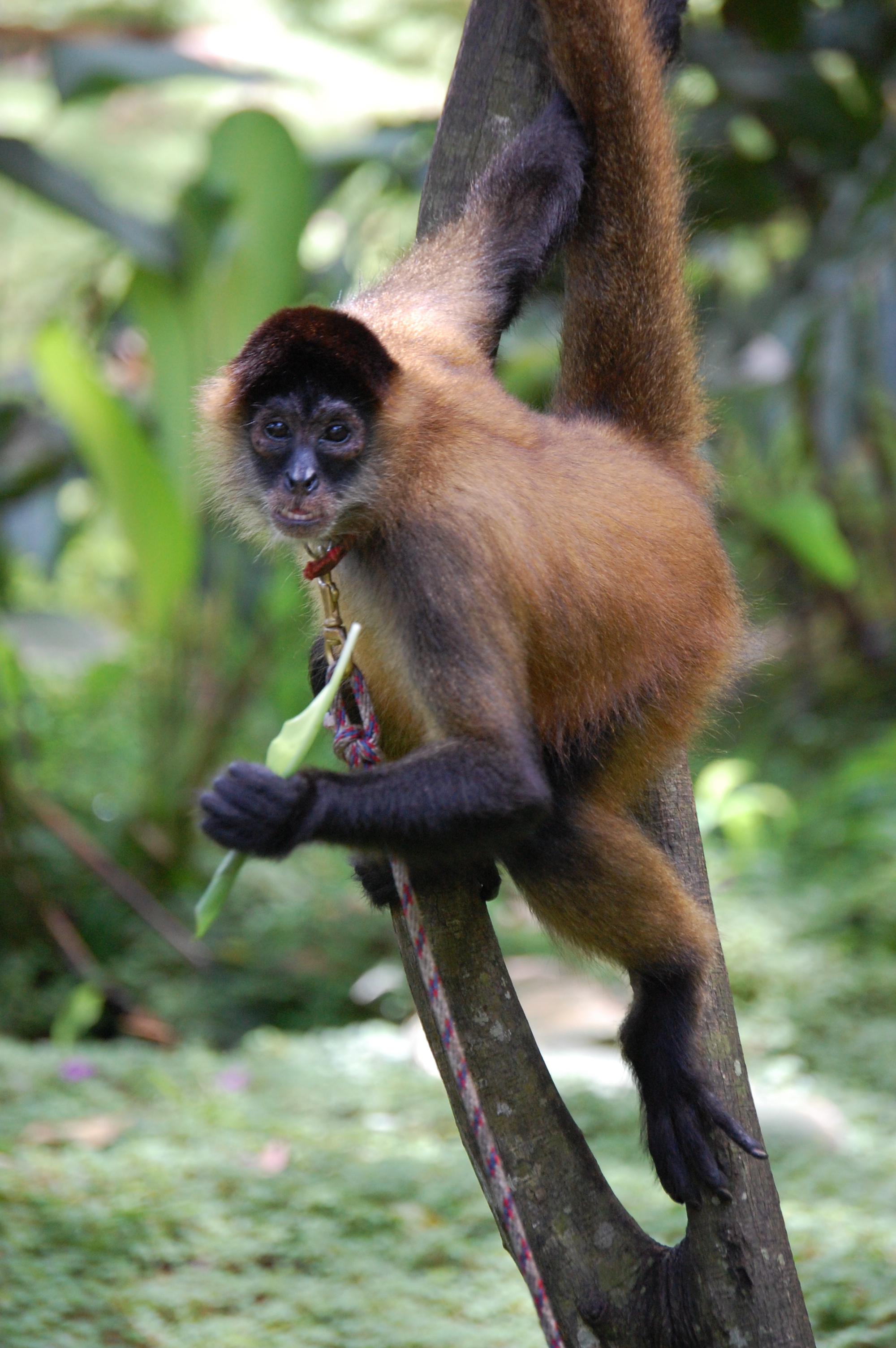 Female Panama spider monkey (Ateles geoffroyi panamensis, sometimes considered a synonym for Ateles geoffroyi ornatus) at the Caña Blanca wildlife sanctuary on the Golfo Dulce, Costa Rica. This individual had been illegally kept as a pet before being confiscated and sent to the sanctuary, and had spent her whole life on a short leash; because of this, she would panic whenever she was let off the leash and had to be kept on a 40-foot tether.